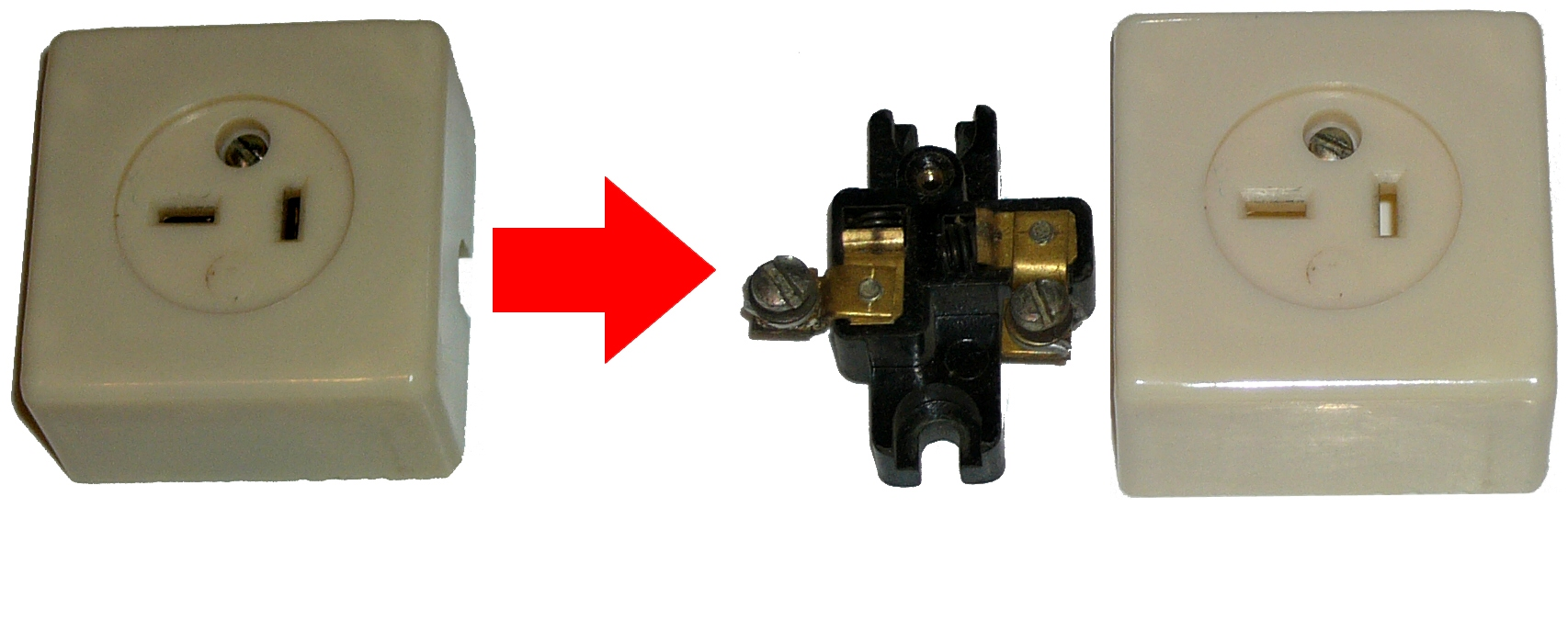 Russian RP-2B outlet 10A 42V AC (very rare thing)